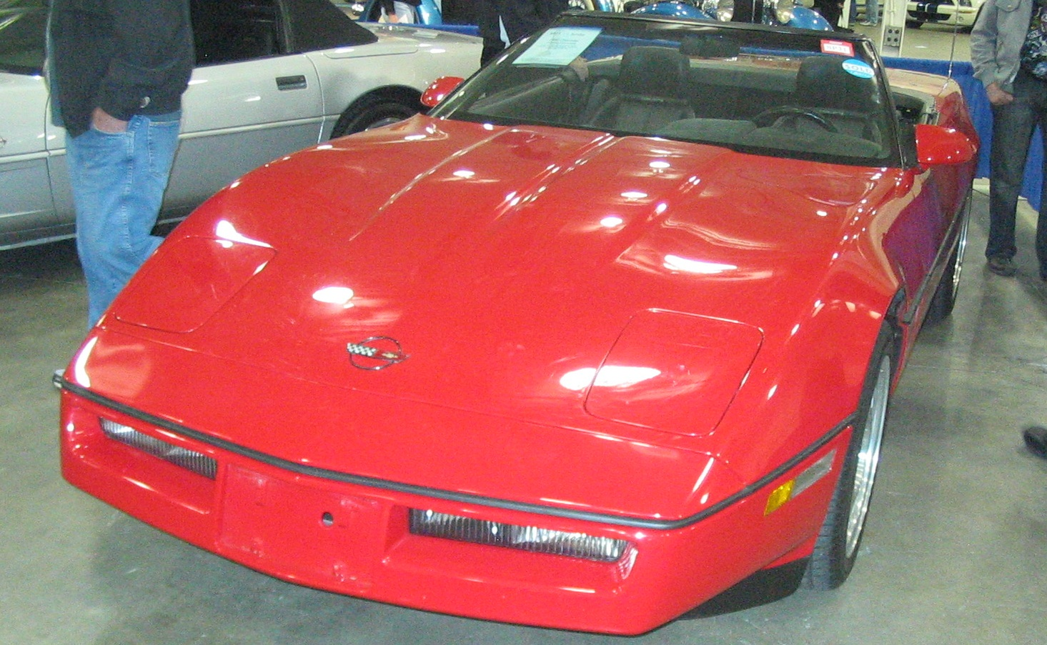 1990 Chevrolet Corvette photographed in Mississauga, Ontario, Canada at the Toronto Classic Car Auction of spring 2012.